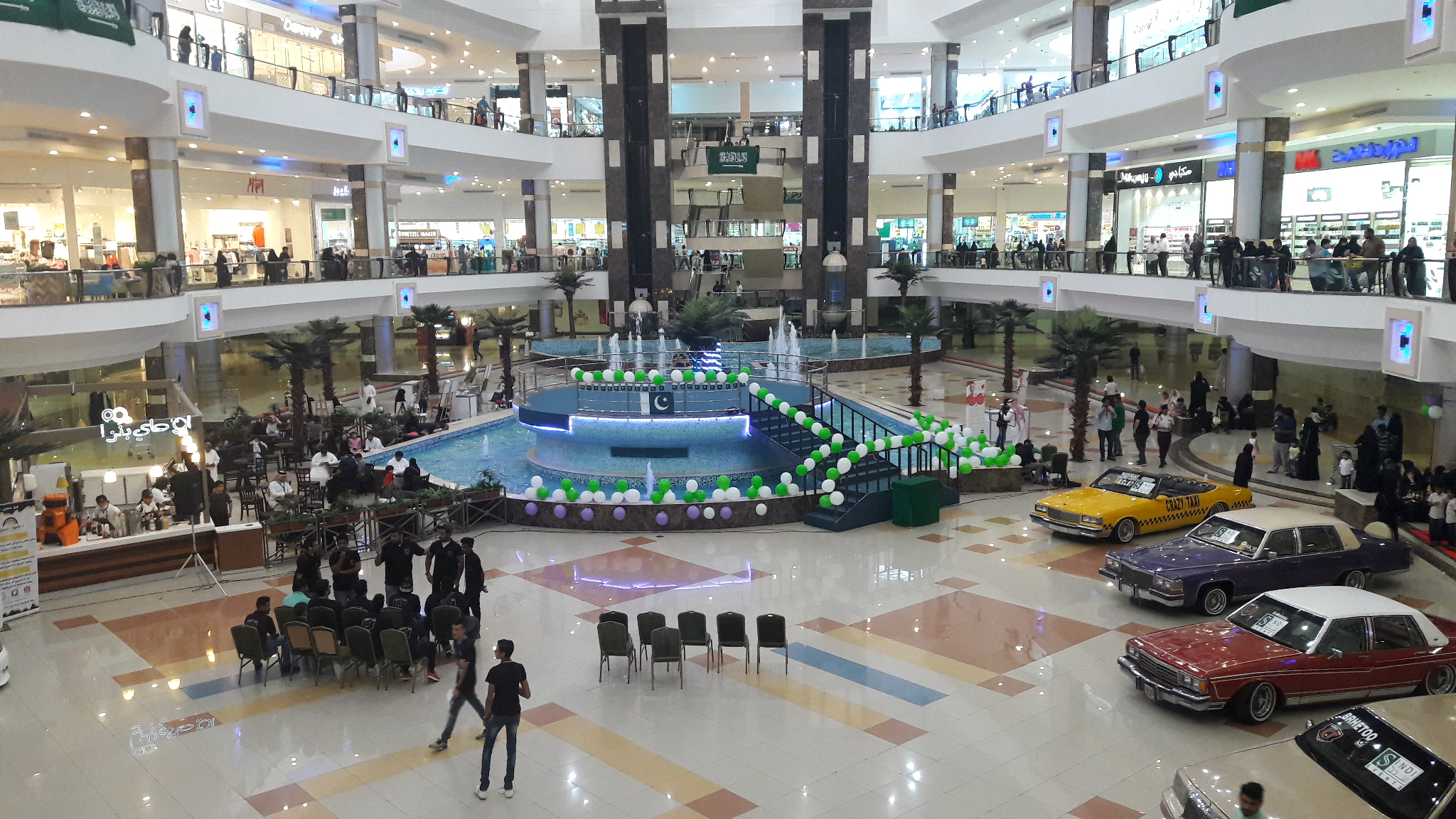 Flamingo Mall, Jeddah